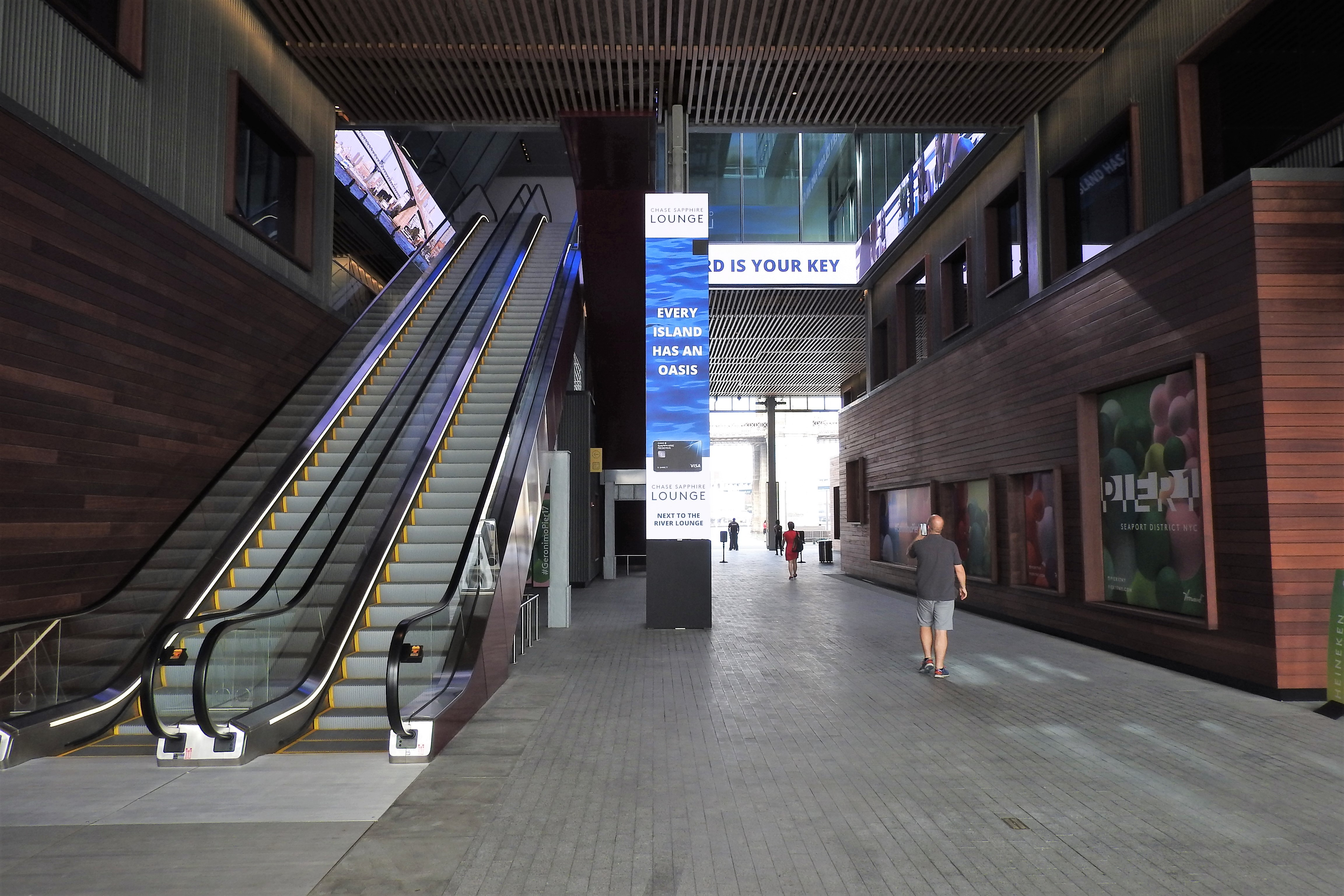 Looking northeast at Pier 17 first floor escalator bank on a mostly cloudy late day.